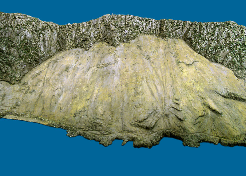 The huge ancient sand dune was modified during the 20 century to produce an extensive water catchment area for the collection of rain water. As of 2002 it has been restored to natural terrain. Today the top cable car station is at the top centre of this photograph. The cliffs remain unchanged on this side of the Rock, however the coastline now has a road and a housing development called Bothworlds at the lower left of this photograph. Views from a model of Gibraltar in Gibraltar Museum. The model is 8 meter's long at a scale of 1/600 or 1inch = 50ft which represents the almost 3 mile length of Gibraltar It was completed in 1865 from a survey by Lient. Charles Waren R.E. under the direction of Major General Frome R.E. it was coloured after nature by Captain B.A. Branfill of 86 Regiment 1868. These pictures are from and are generously given by the site and its auithor Jim Crone